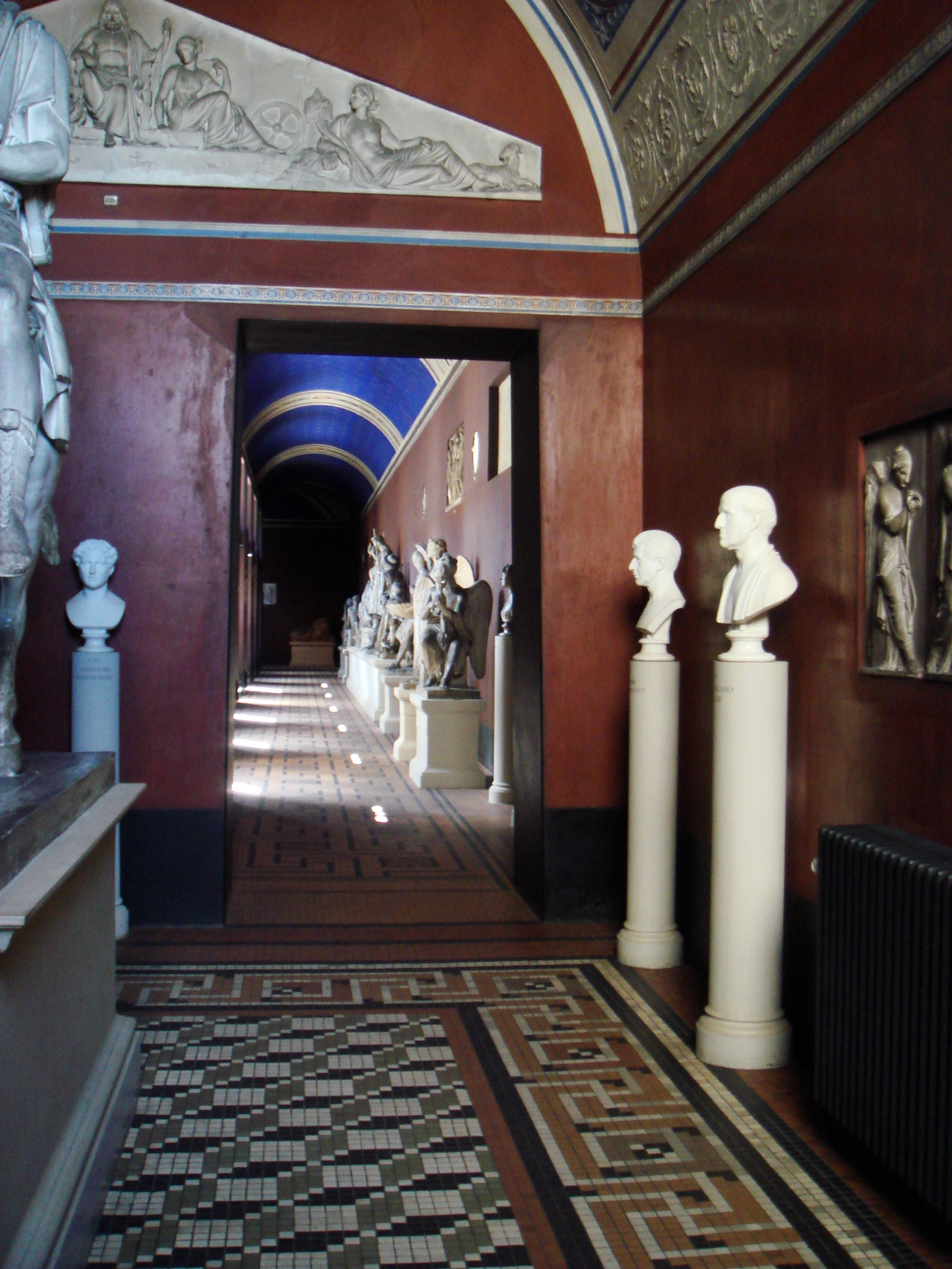 Inside Thorvaldsen museum, Copenhagen. Picture by Stefano Bolognini.